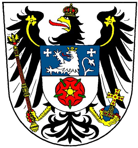 Coat of arms of St. Johann in Saarbrücken